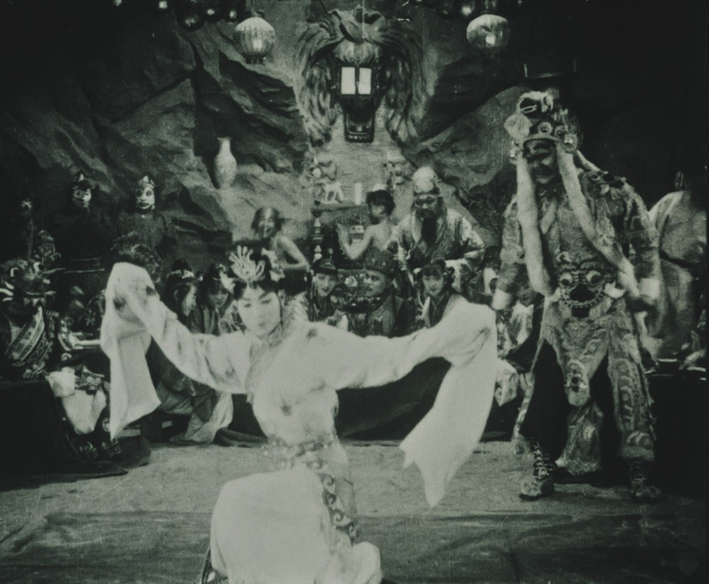 Image from the 1927 Chinese movie The Cave of the Silken Web (Pan Si Dong)